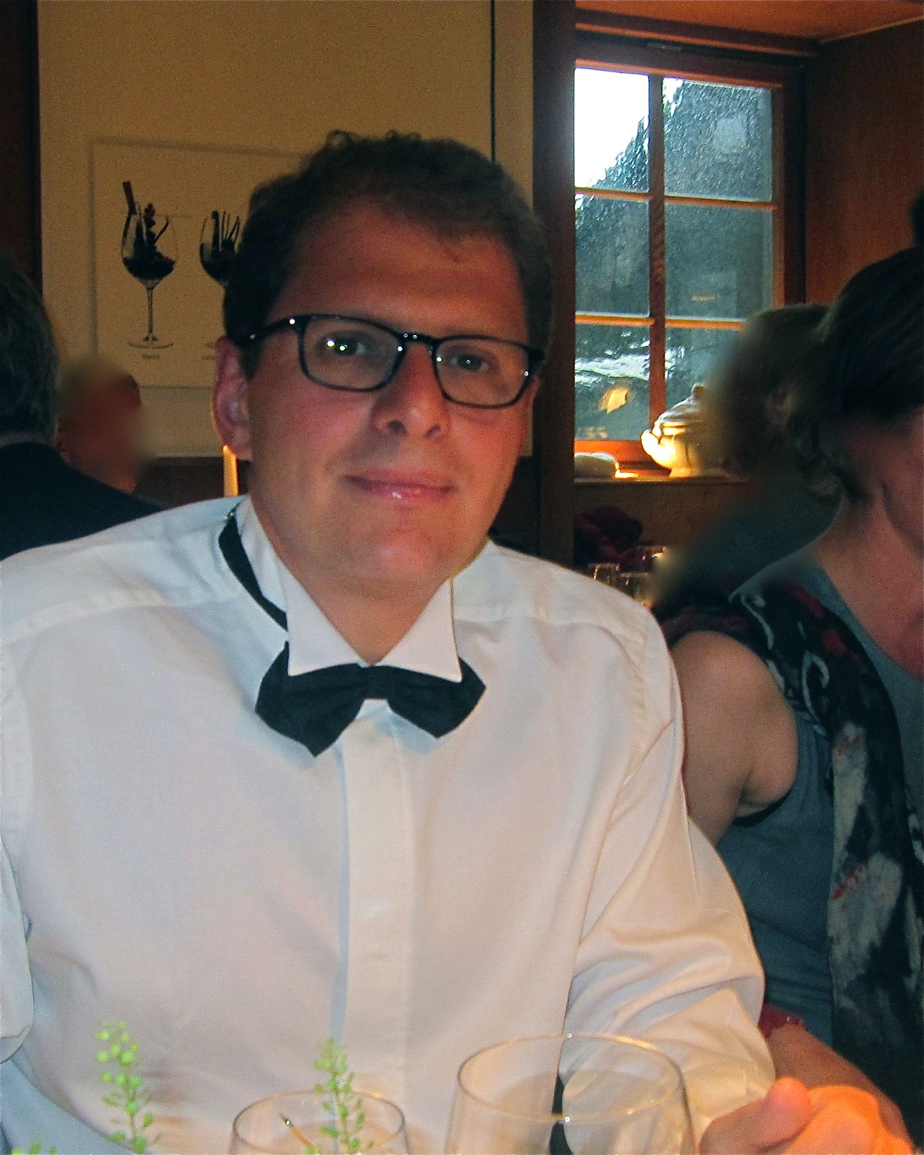 fabrizio pagani